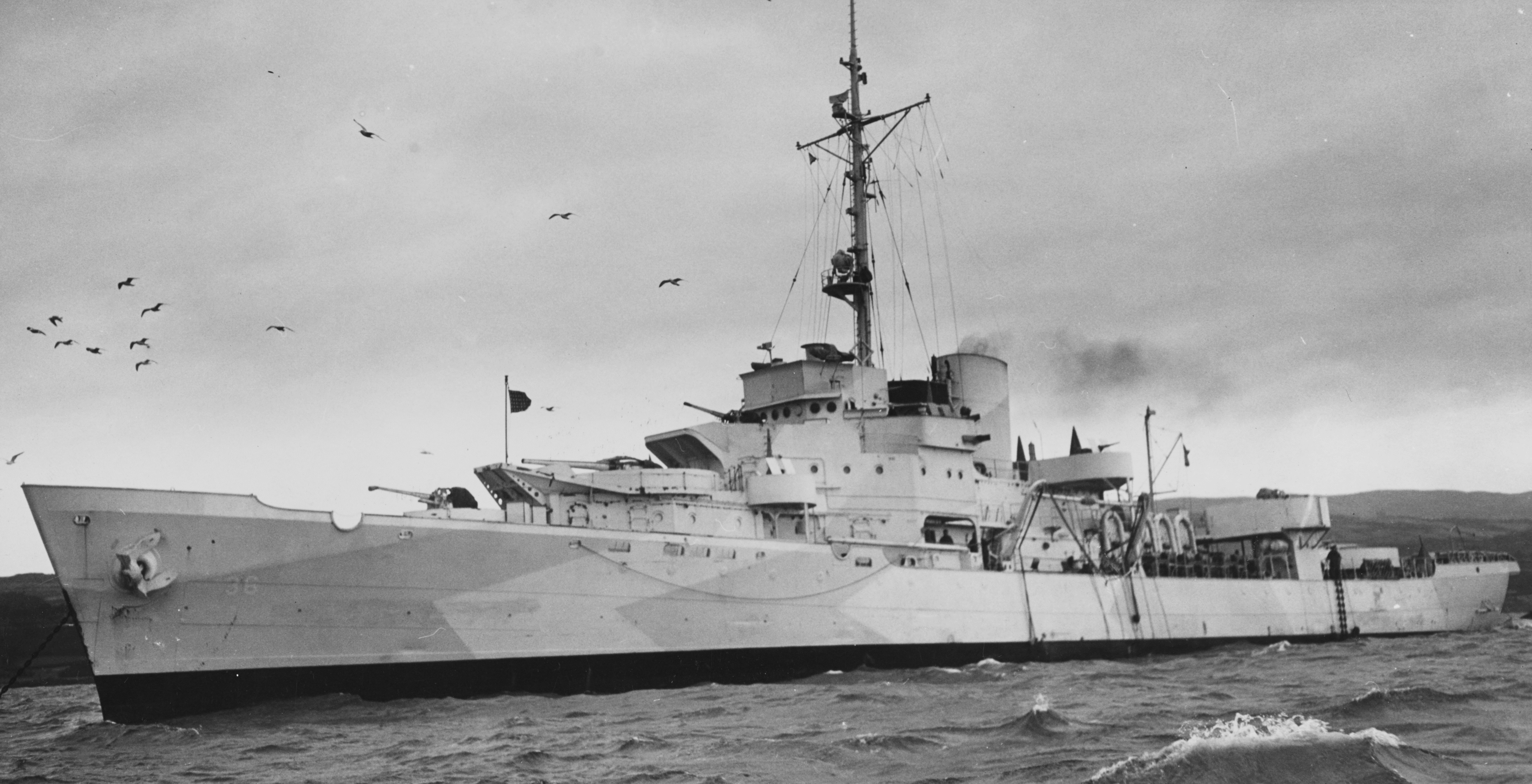 View taken circa 1943. Note camouflage, similar to British "Western approaches" scheme.